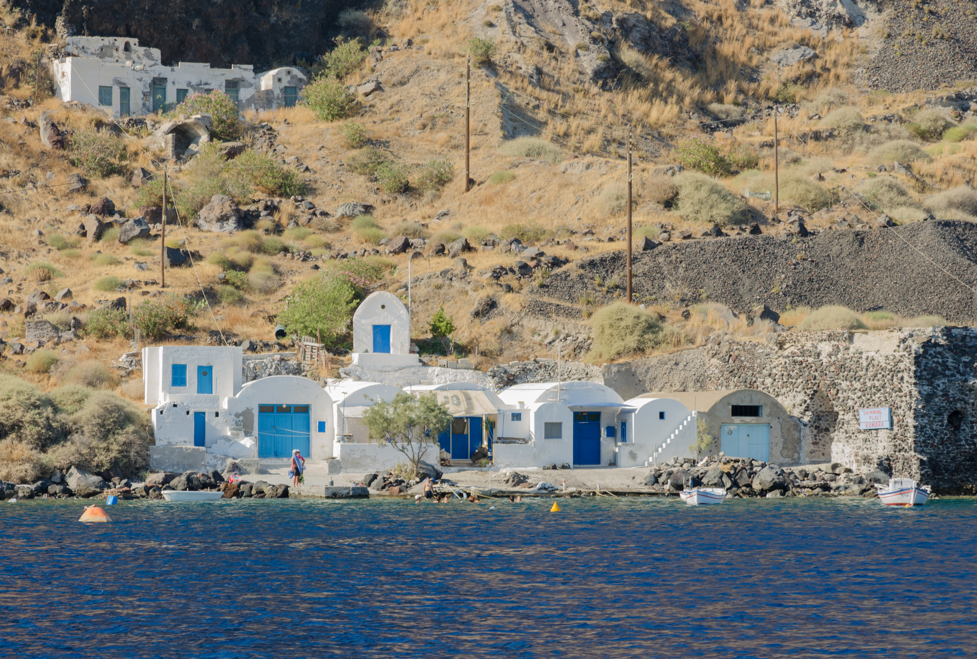 Fisherman's huts, Korfos harbour, Thirasia, Santorini, Greece.